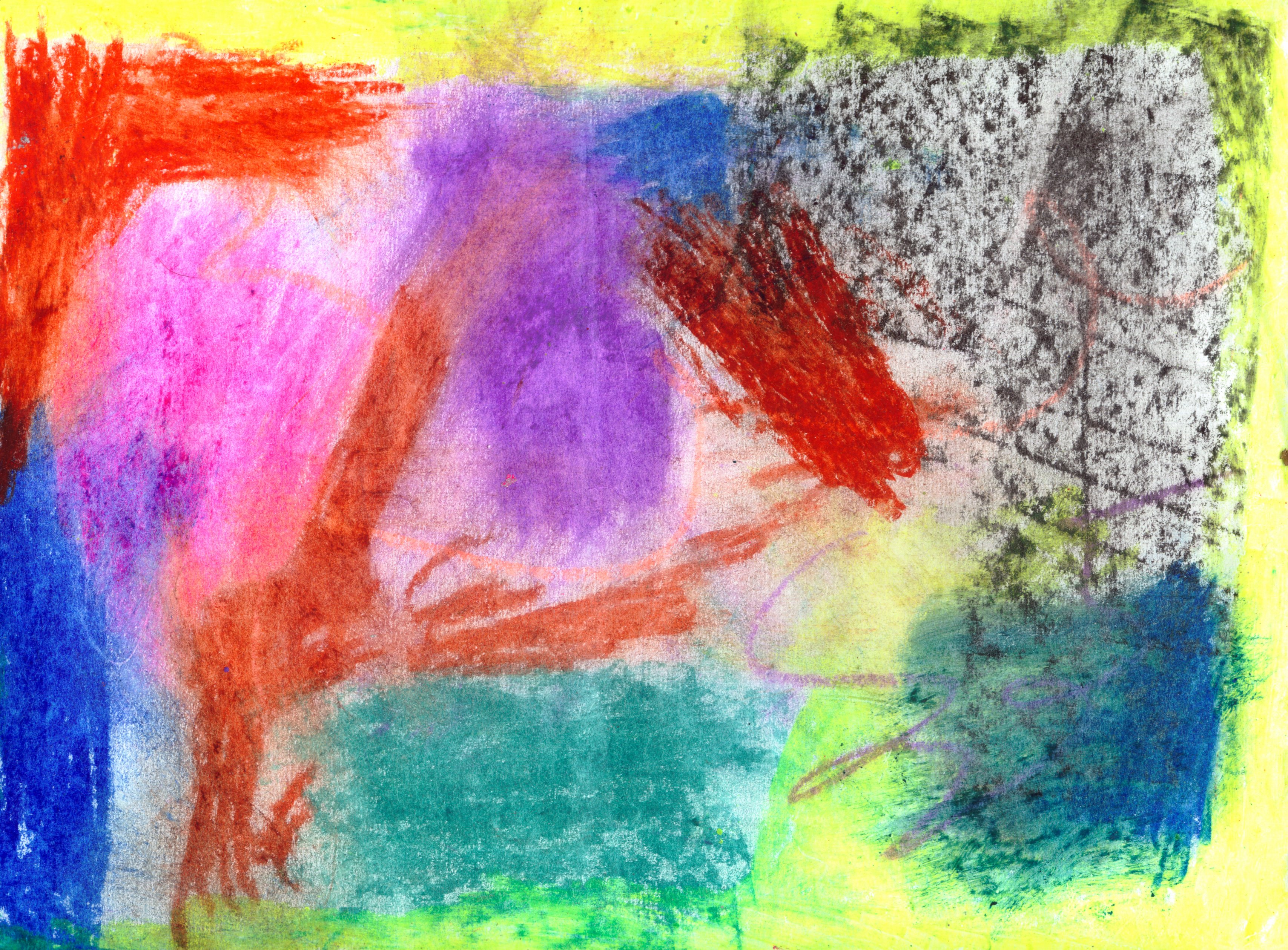 Abstract child art, from the Ross family in Reno, Nevada.